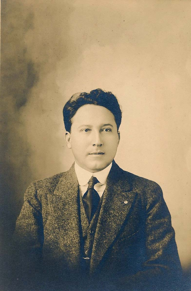 Miguel Alonzo Romero, Revolutionary and deputy to the Constituent Congress of 1917 in Mexico.